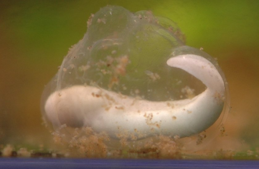 10-day-old Neurergus kaiseri egg. Picture taken in captivity, in France.